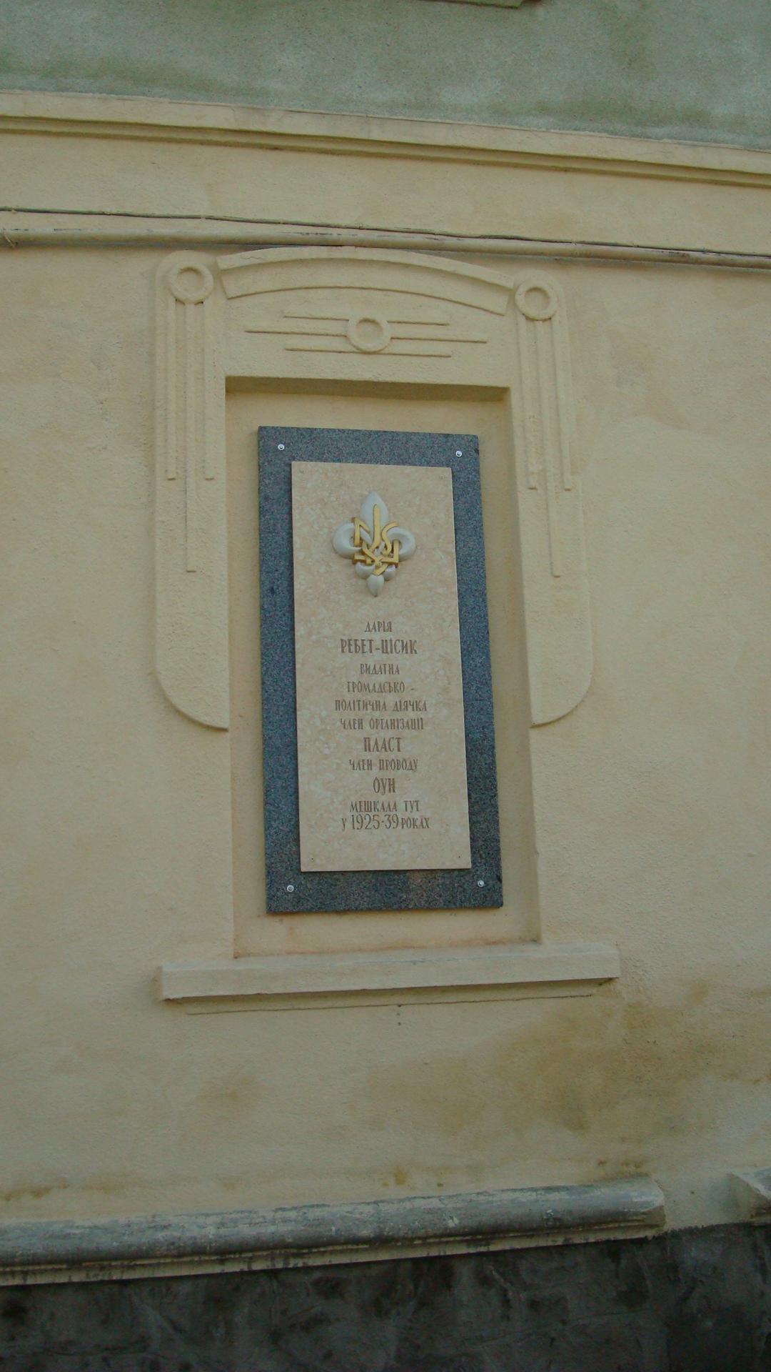 Commemorative plaques to Daria Rebet in Stryi, which was established in 2017.